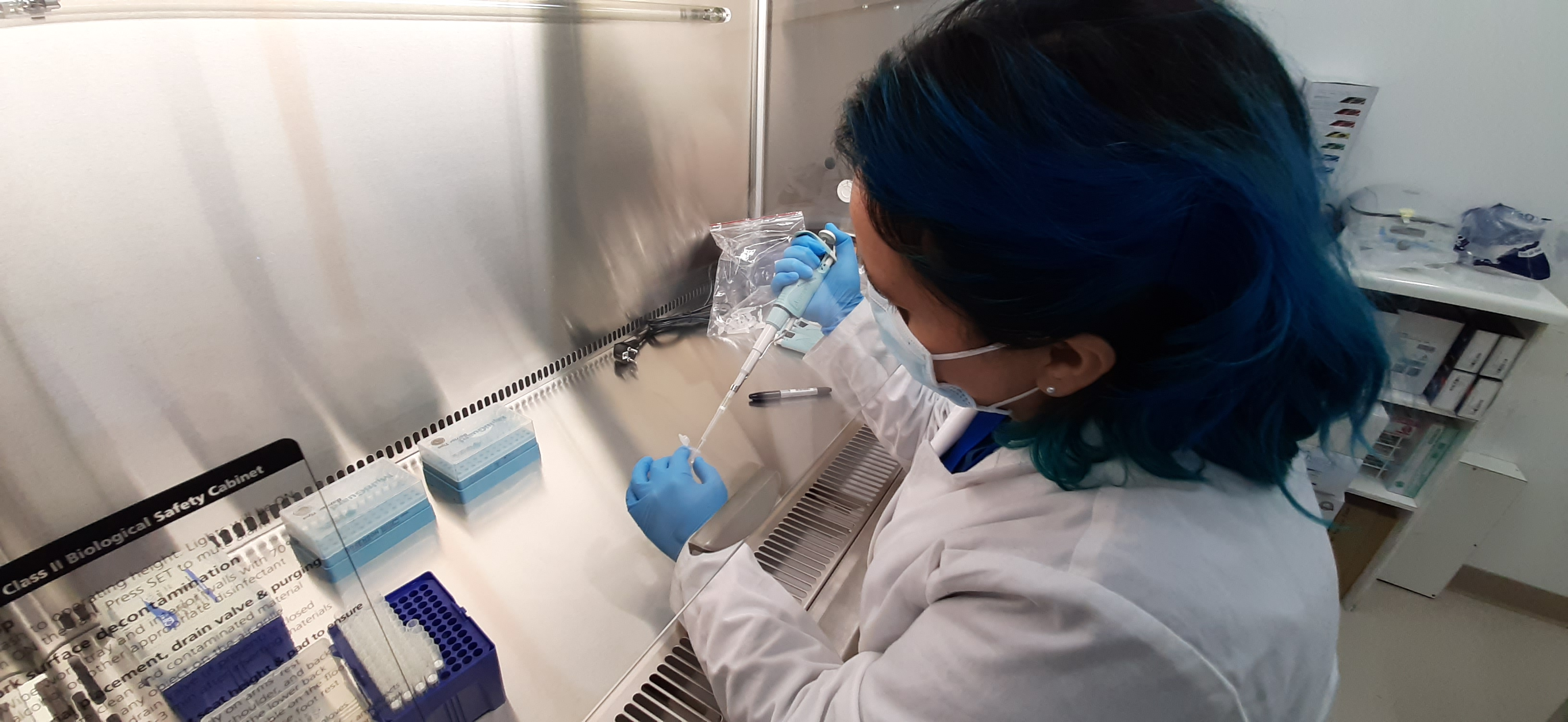 Assistance to Chile for diagnostics of COVID-19 COVID-19 equipments donated by the IAEA use by two biochemists, Ariel Leyton, Biochemist, Head of the Molecular Biology Laboratory and Nicole Parada, Biochemist, at the Hospital’s Molecular Laboratory performing tests for detecting SARS-CoV-2 in patients. Chile. 6 July 2020. The International Atomic Energy Agency (IAEA) is dispatching equipment to countries around the world to enable them to use a nuclear-derived technique to rapidly detect the coronavirus that causes COVID-19. This emergency assistance is part of the IAEA's response to requests for support from Member States in controlling an increasing number of infections worldwide. Photo Credit: Hospital Claudio Vicuña